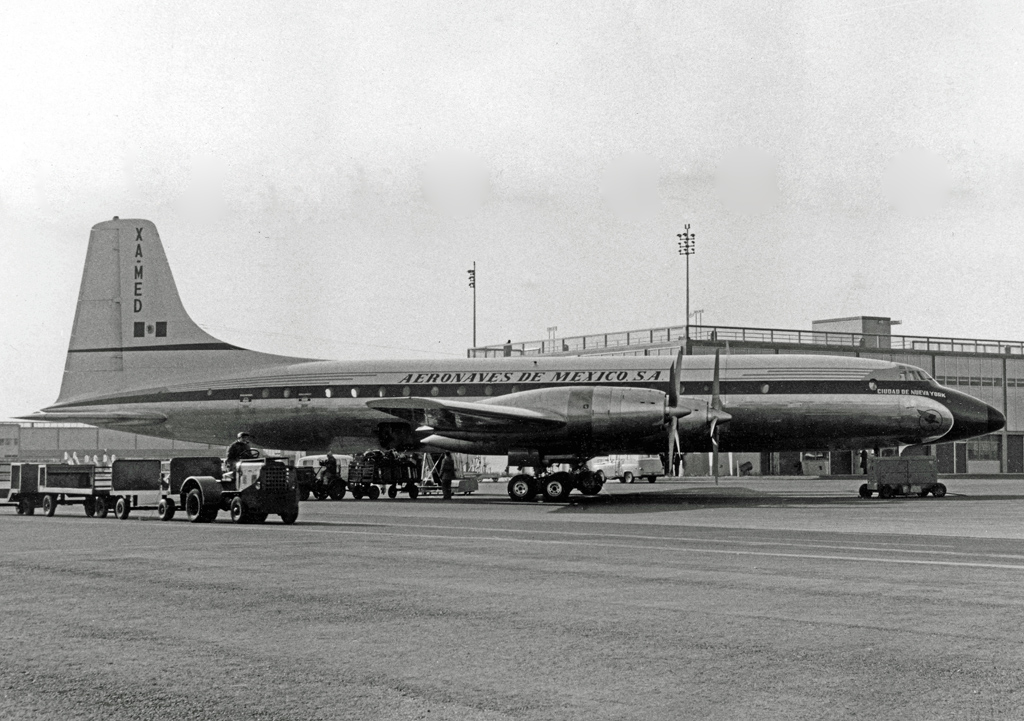 Bristol Britannia 302 of Aeronaves de Mexico at New York JFK in 1958